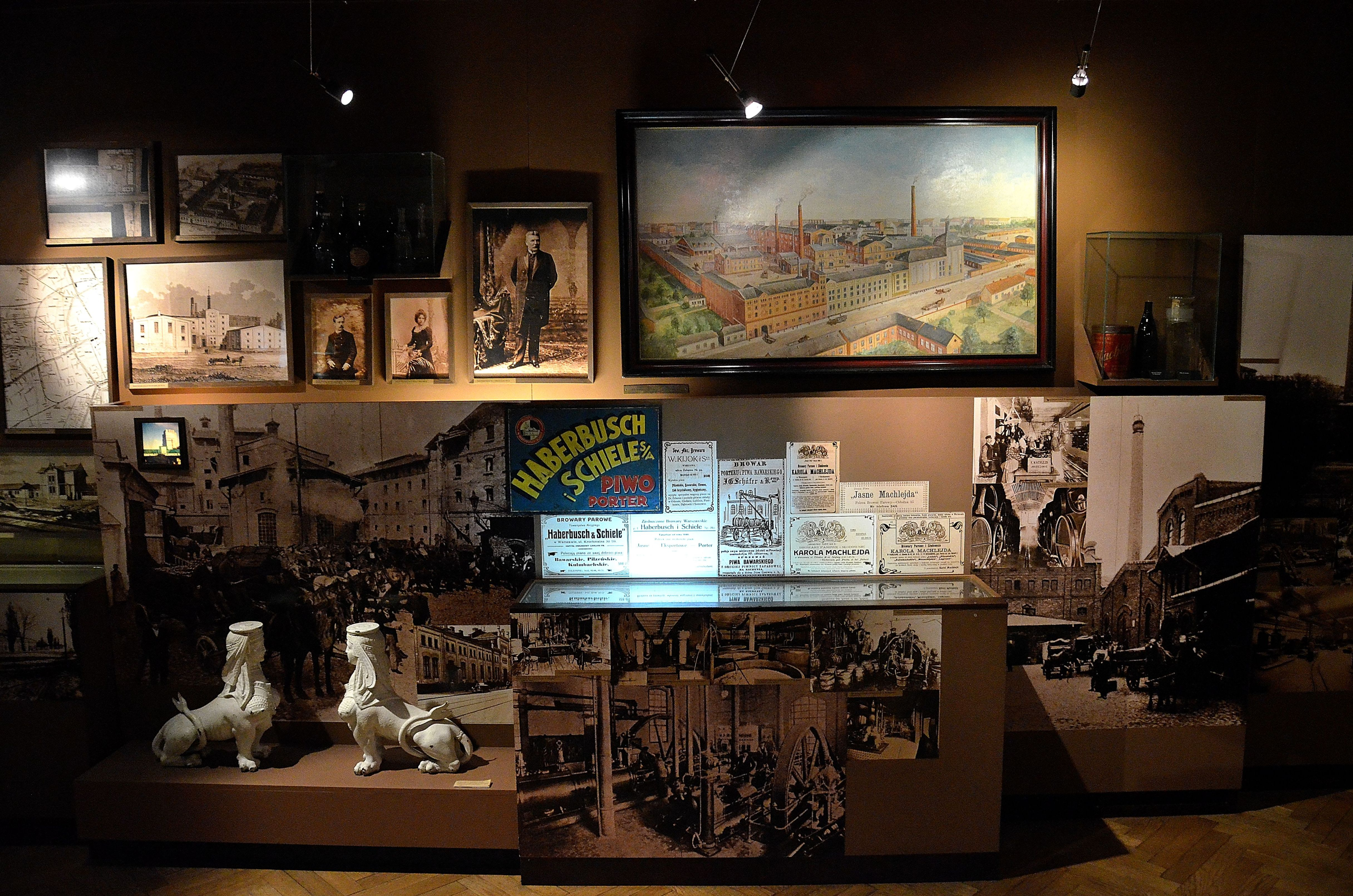 A part of the exhibition in the Wola Museum in Warsaw